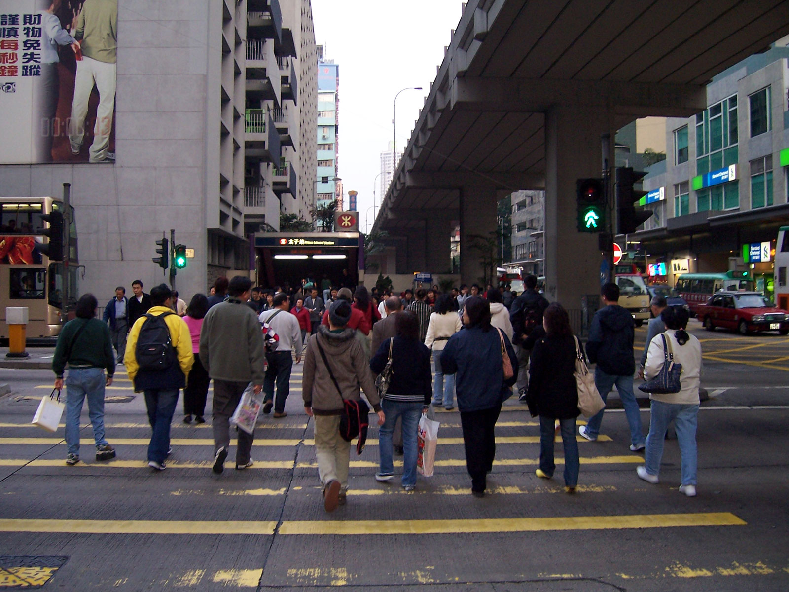 Pedestrians cross a road in Mong Kok. The MTR station visible is Prince Edward (MTR). Taken by Enoch Lau on 29 December 2005. As a courtesy, please let me know if you alter this image or this image description page. Original filename was 100_0851.JPG.